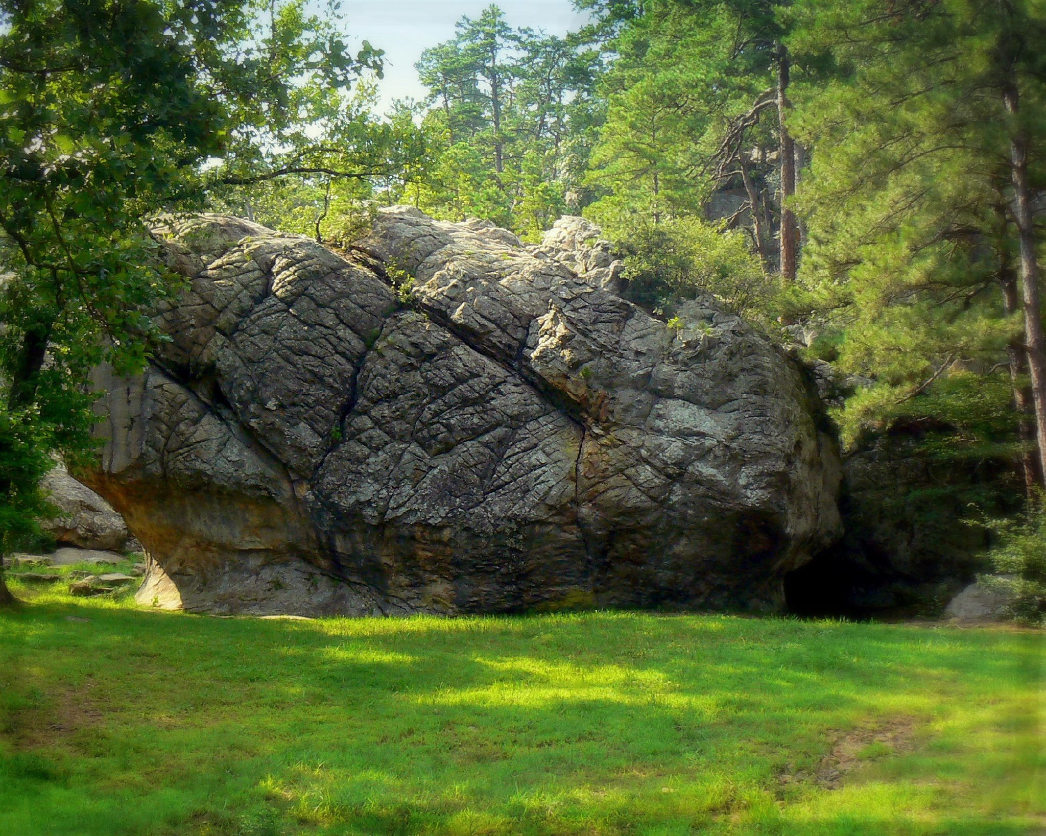 Robbers Cave State Park in Wilburton, Oklahoma offers several one person width hiking trails. There are small yellow dot and red dot trails marked on trees around the cave area. Great walking hike for young families, afterwards go for some swimming and paddling at Lake Carlton right there in the park.